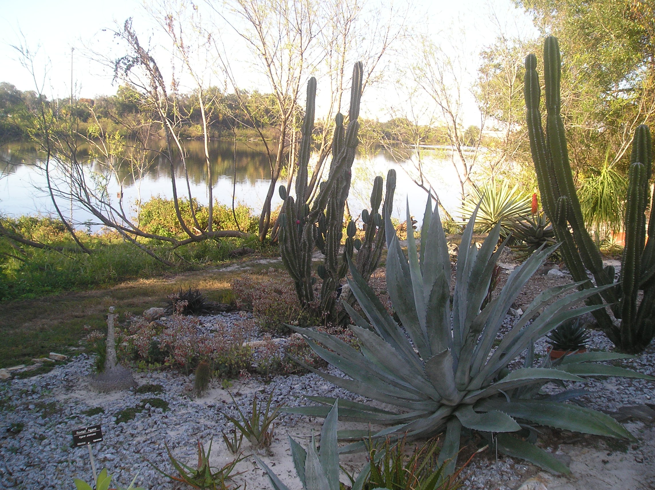 USF Botanical Garden1